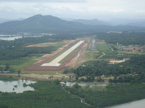 Dawei, Burma. Image taken by MikeRussia on flickr. The creator has granted GFDL licensing and permission for use in the wikimedia project.